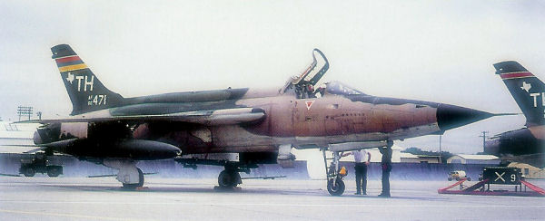 A U.S. Air Force Reserve Republic F-105D-10-RE Thunderchief (s/n 60-0471) of the 457th Tactical Fighter Squadron, 301st Tactical Fighter Wing, at Carswell AFB, Texas (USA), in May 1981. This aircraft had received the "Thunderstick II" modification and was retired to the MASDC as FK0070 on 13 November 1981.